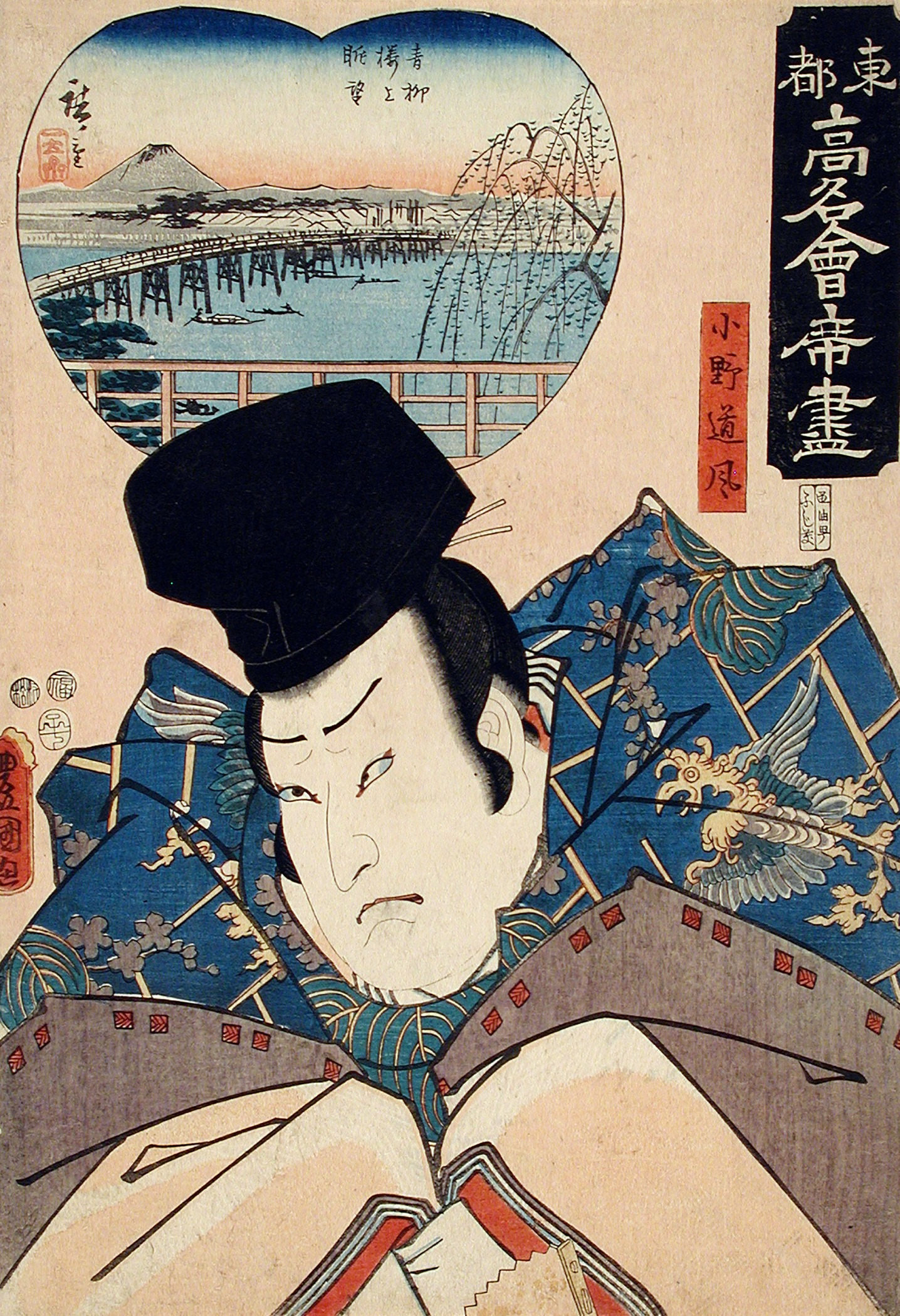 View from the Upper Floor of the Aoyagi Restaurant: (Actor Arashi Rikan III as) Ono no Michikaze, from the series Famous Restaurants of the Eastern Capital (Tôto kômei kaiseki zukushi) Japan, 19th century Series: Komyo kaitei zukushi; with Spring Willow above the Bridge by Utagawa Hiroshige Prints; woodcuts Color woodblock print 13 x 9 5/8 in. (33.0 x 24.5 cm) Gift of Mr. and Mrs. F. G. Notehelfer (AC1995.206.2) Japanese Art